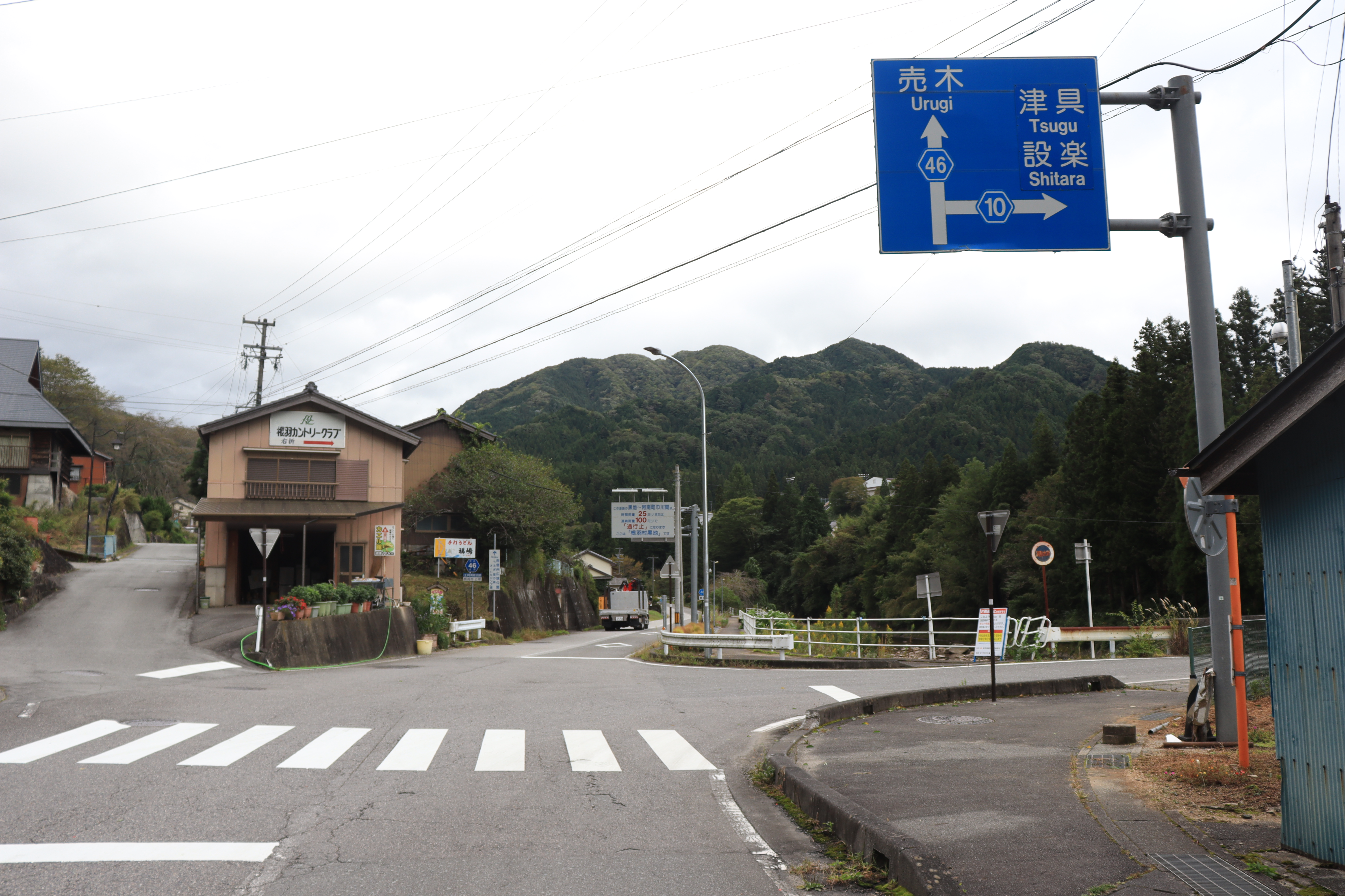 Nagano Prefectural Road Route 10 (Shitara-Neba Line) and Nagano Prefectural Road Route 46 (Anan-Neba Line) in Kanmachi, Neba, Nagano Prefecture, Japan.